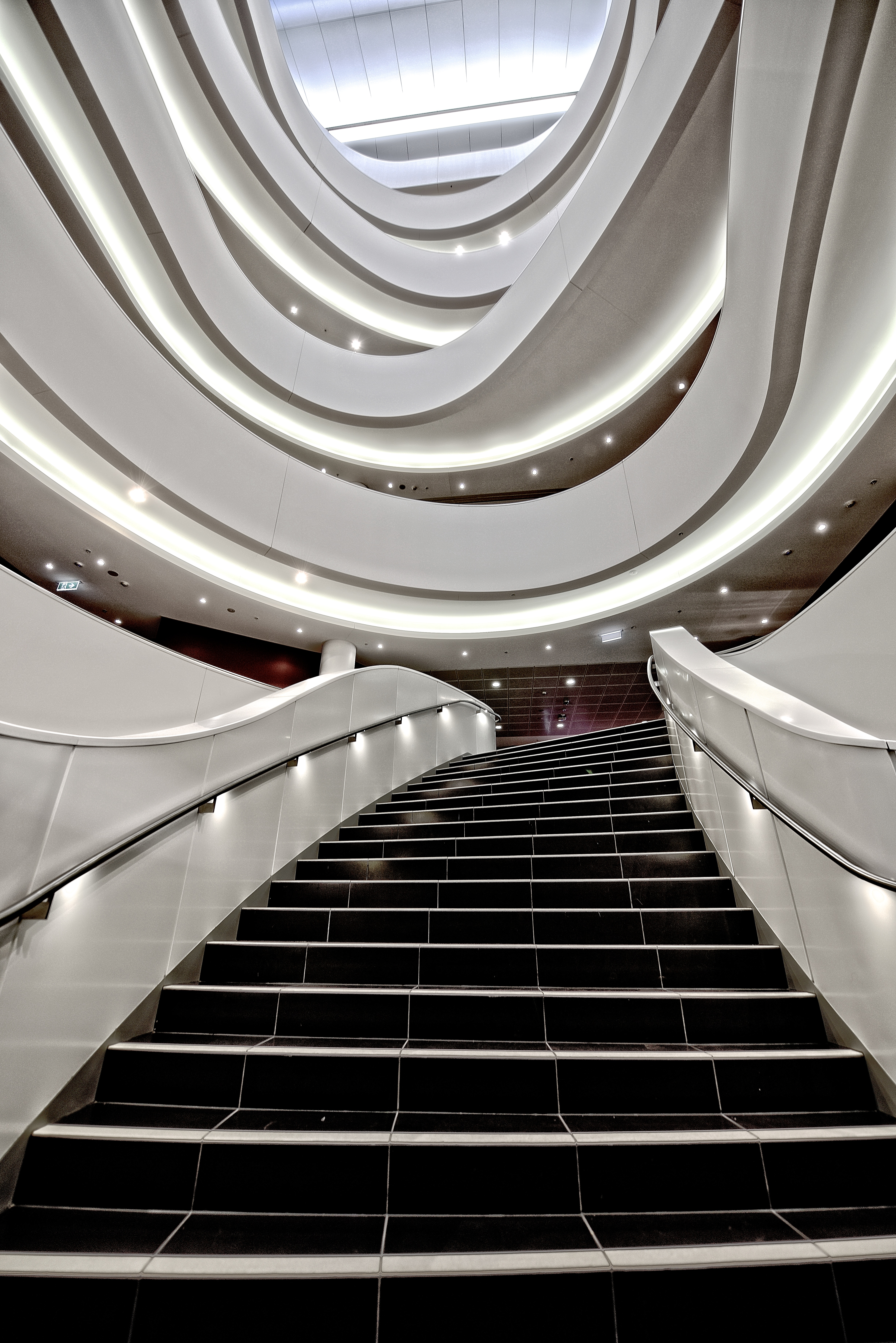 Stairs in the Charles Perkins Centre, Sydney